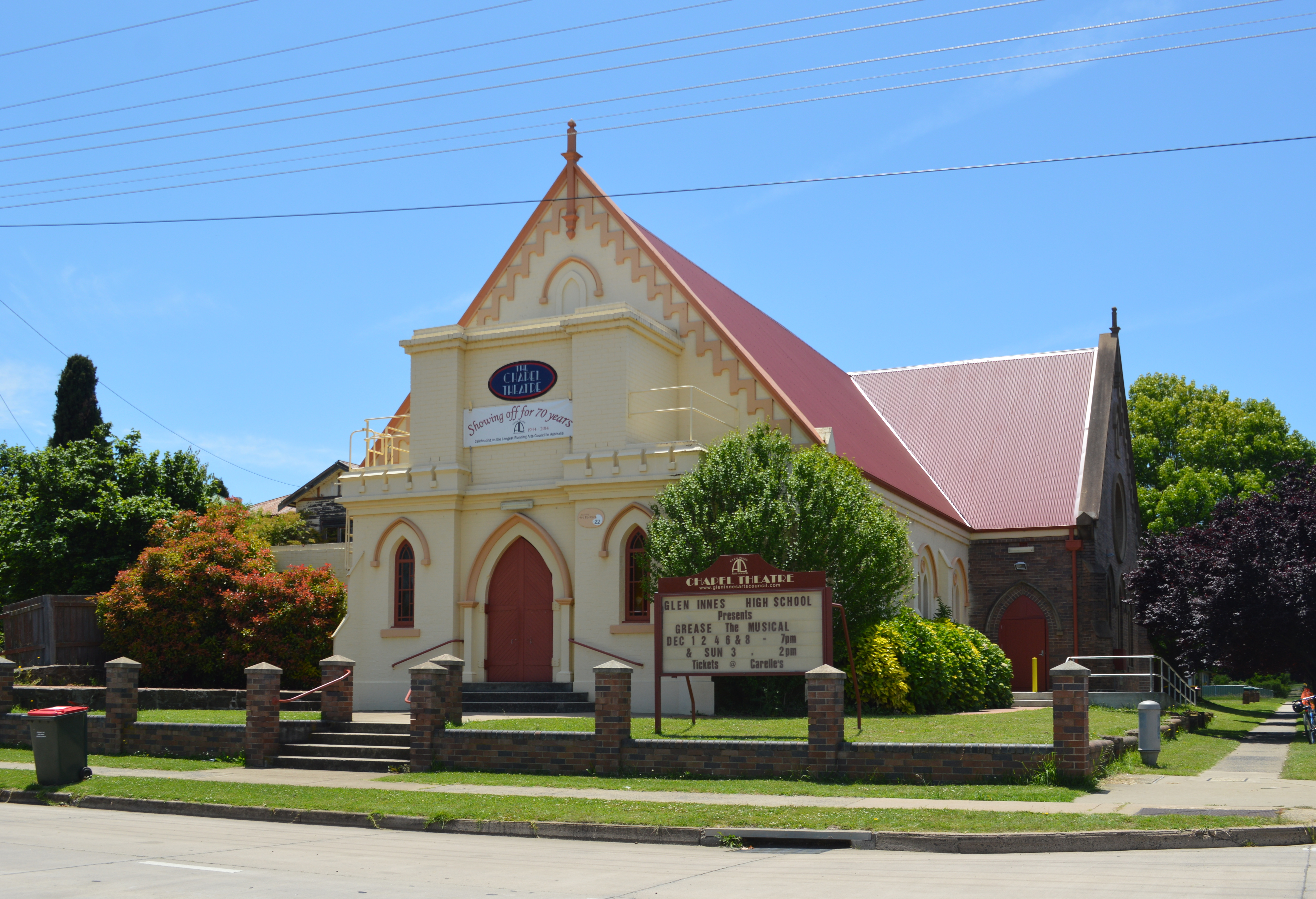 The Chapel Theatre in Glen Innes, New South Wales, a former Methodist church